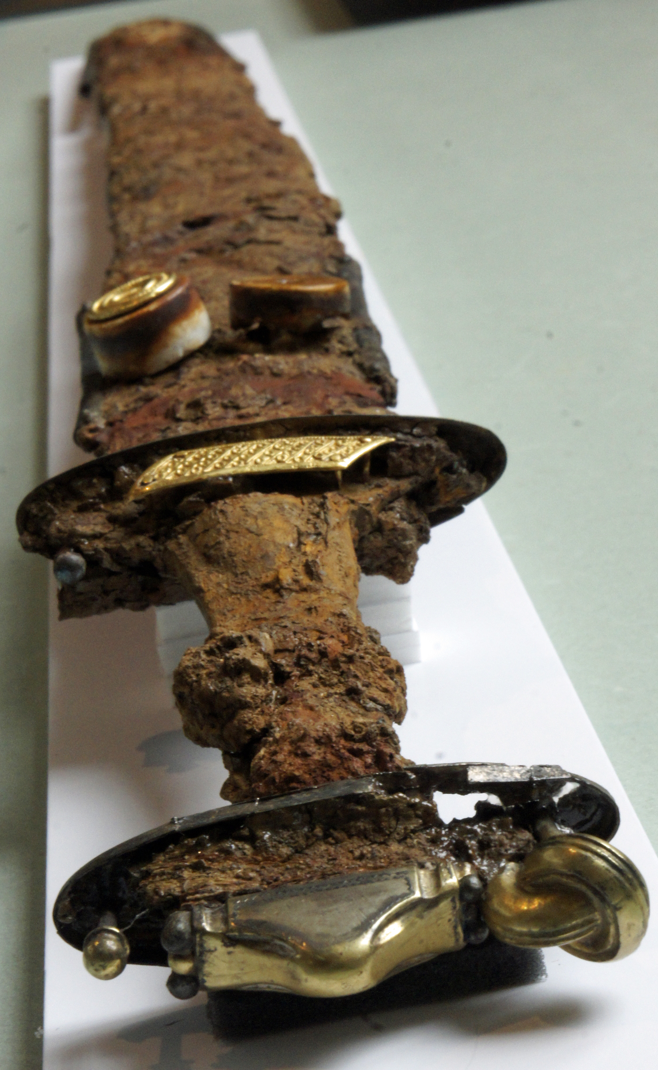 Saint-Dizier (Haute-Marne) grave 11. Germanic Futhark or Anglo-Saxon Futhorc runic inscription alu on Bifrons-Gilton type ring sword pommel carved then effaced and replaced with niello ornaments.